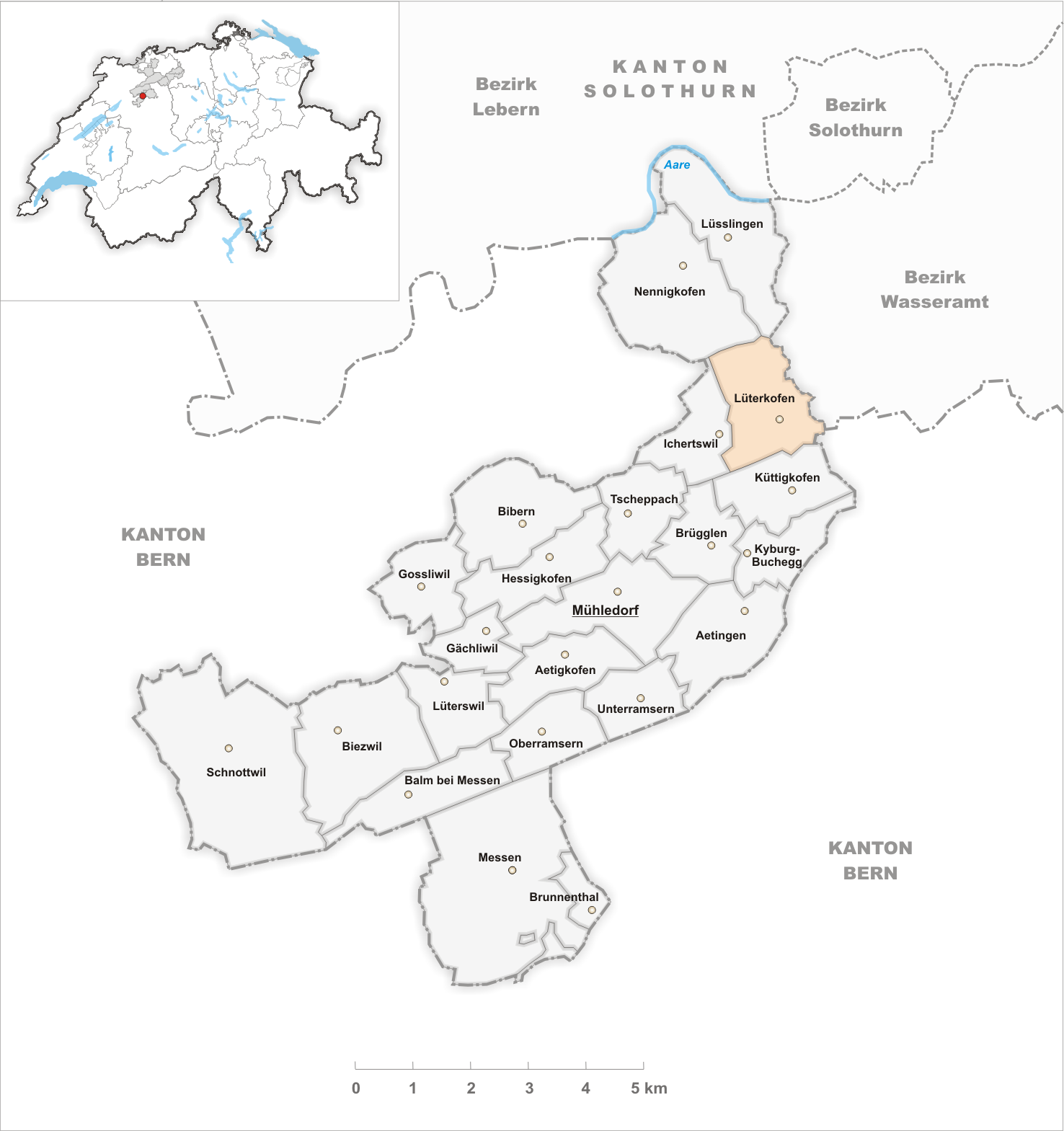 Municipality Lüterkofen Artist: Tschubby